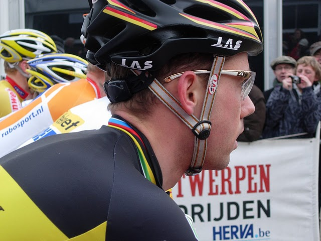 Cyclo crosser from Belgium, Sven Nijs, in Oostmalle, 2010